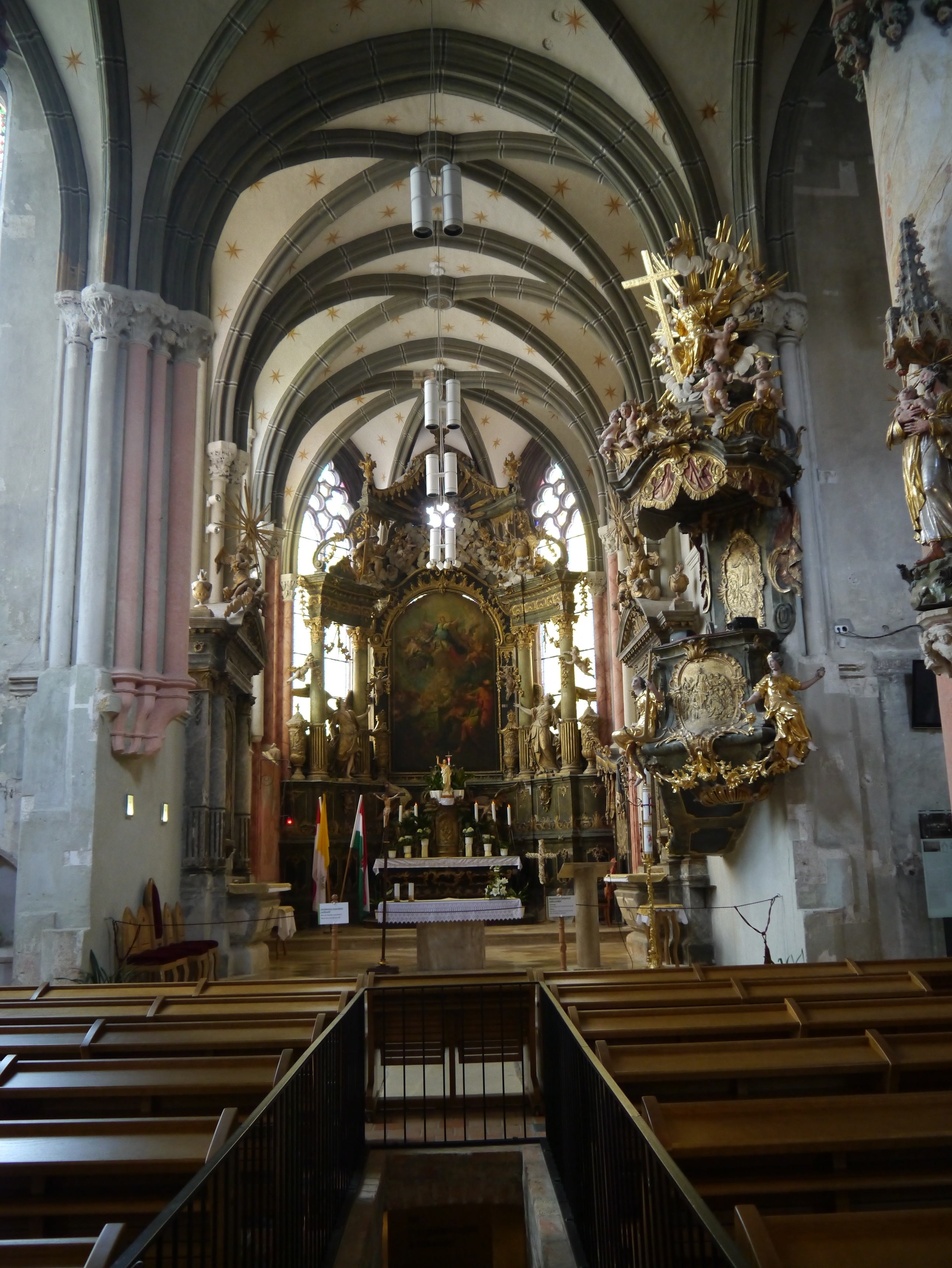 Nave of the Goat church, Sopron, Western Hungary